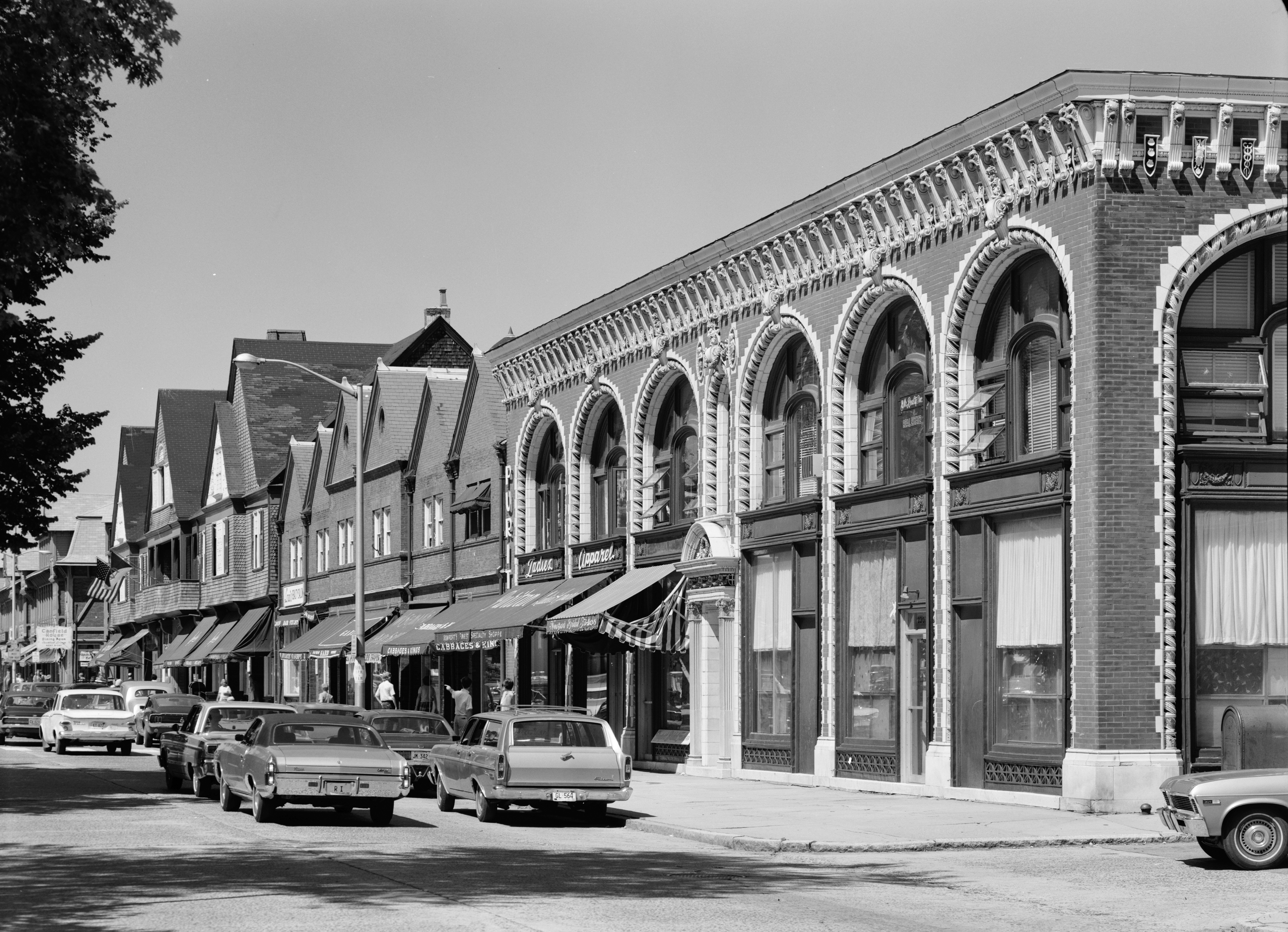 The Audrain Building — in Newport, Rhode Island. Exterior facade from an oblique angle; the Audrain Building is in the foreground. Architect; Bruce Price. 1970 image: habs—Historic American Buildings Survey of Rhode Island.